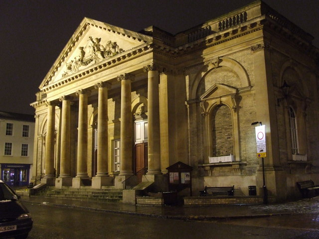 The Corn Exchange The Corn Exchange Bury St.Edmunds, Suffolk.